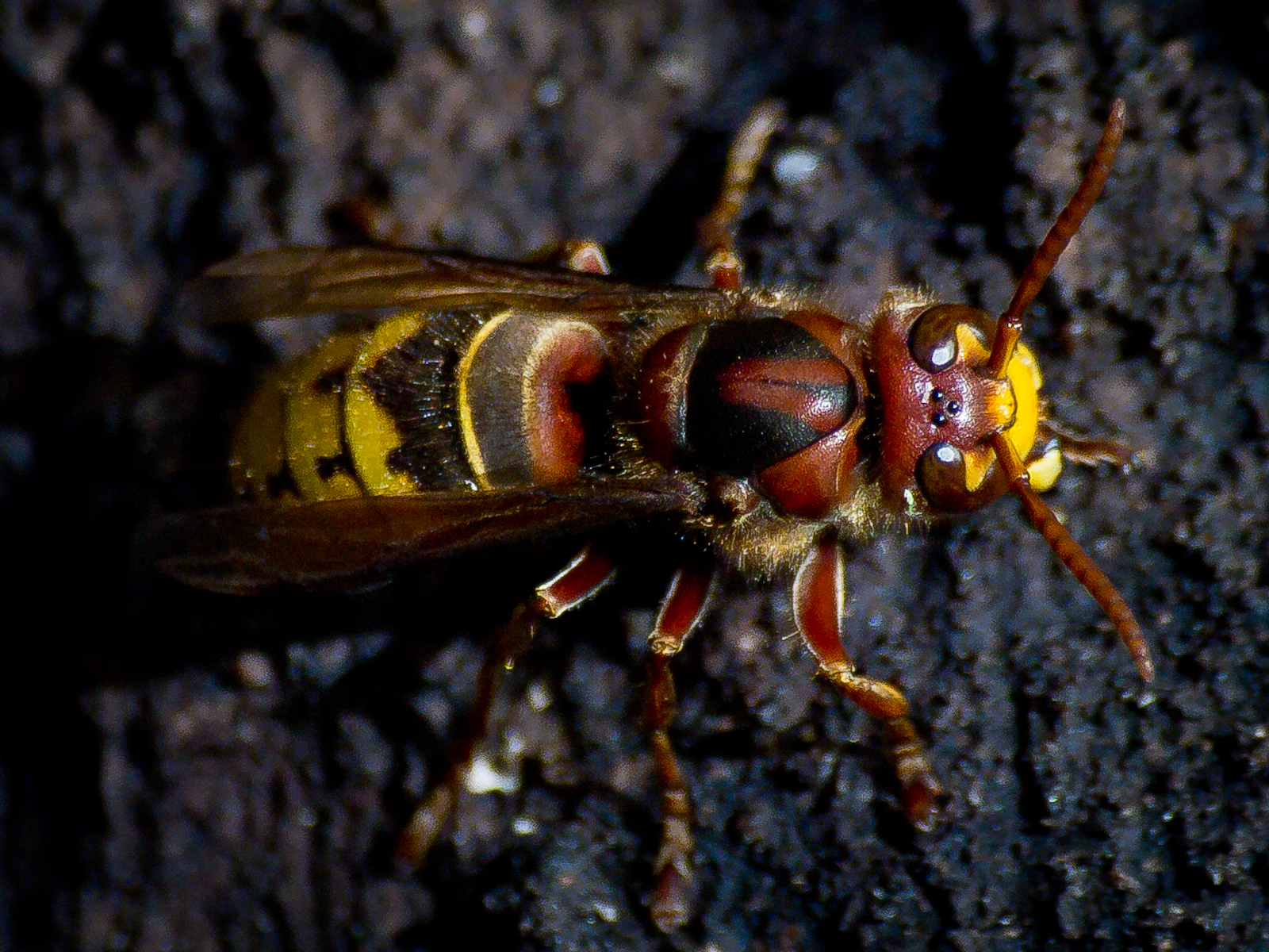 A female European hornet (Vespa crabro) on an oak tree. Photo taken with an Olympus E-5 in Caldwell County, NC, USA. Cropping and post-processing performed with Adobe Lightroom.